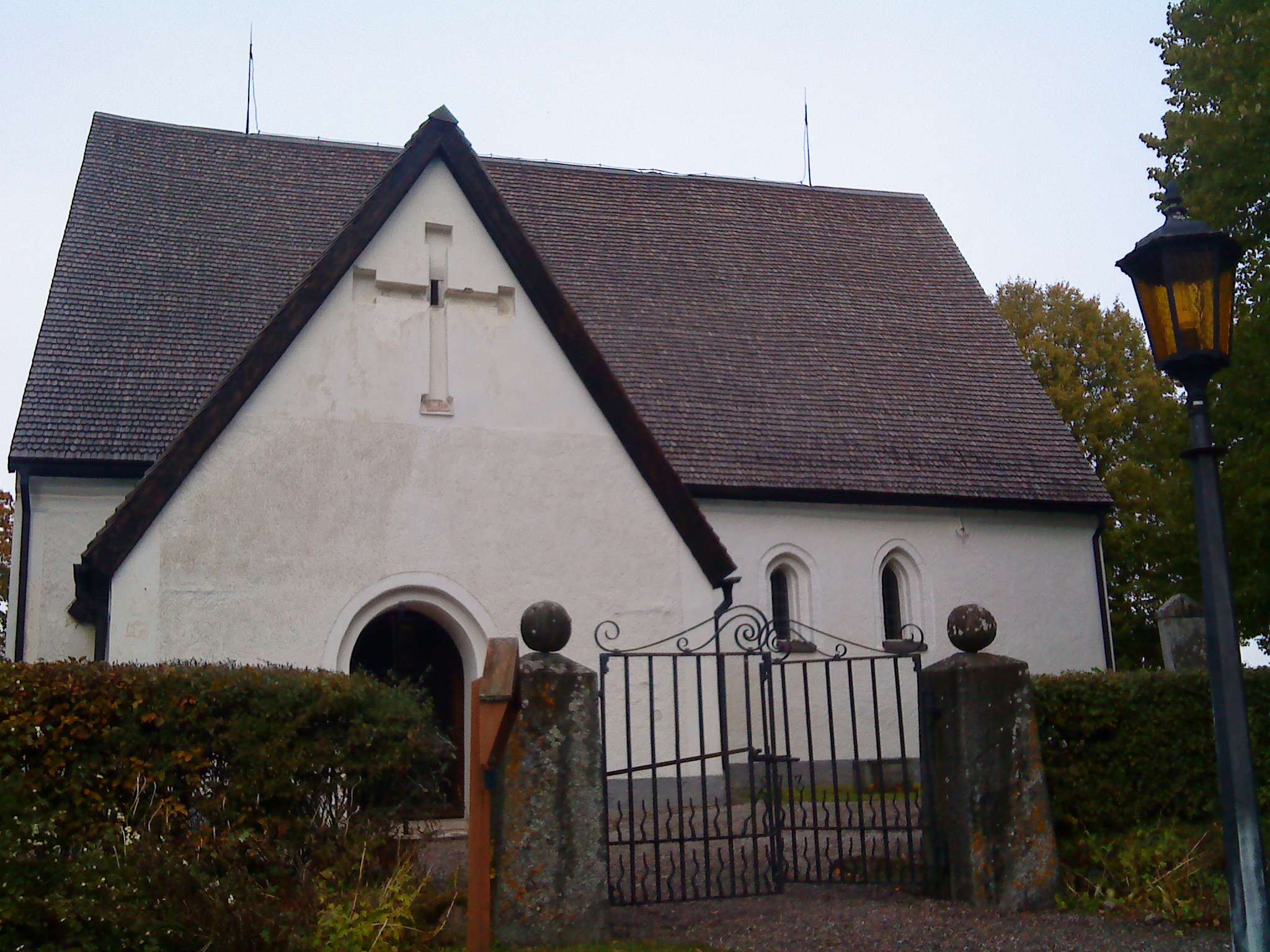 Parish church of Härnevi (south), diocese of Uppsala